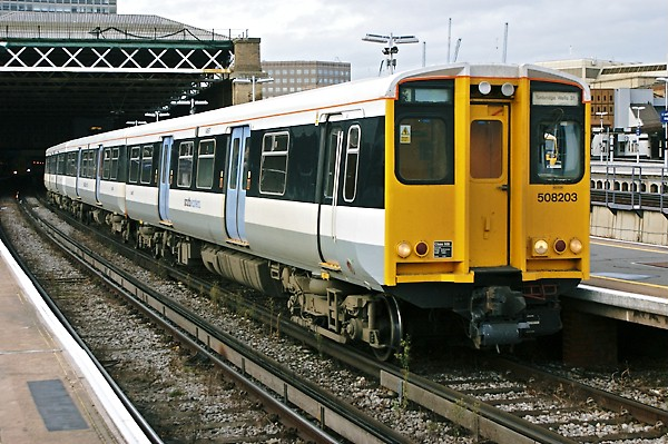 BREL (York) Class 508/2 (refurbished from Merseyrail 508/1) Standard Mk.II 750v dc 3rd rail 3-car emu No.508 203 (ex-508 106) freshly painted in South Eastern livery (which had actually been the new Connex South Eastern livery shortly before Connex lost their franchise) at London Bridge 11/08 on a Redhill and Tonbridge service, in the last days before this service was transferred from SE to Southern, so the newly painted livery became inappropriate for this unit almost immediately! The unit was then transferred to Merseyrail.